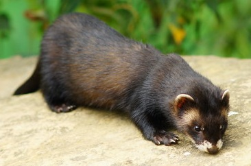 Polecat at the British Wildlife Centre, Newchapel, Surrey